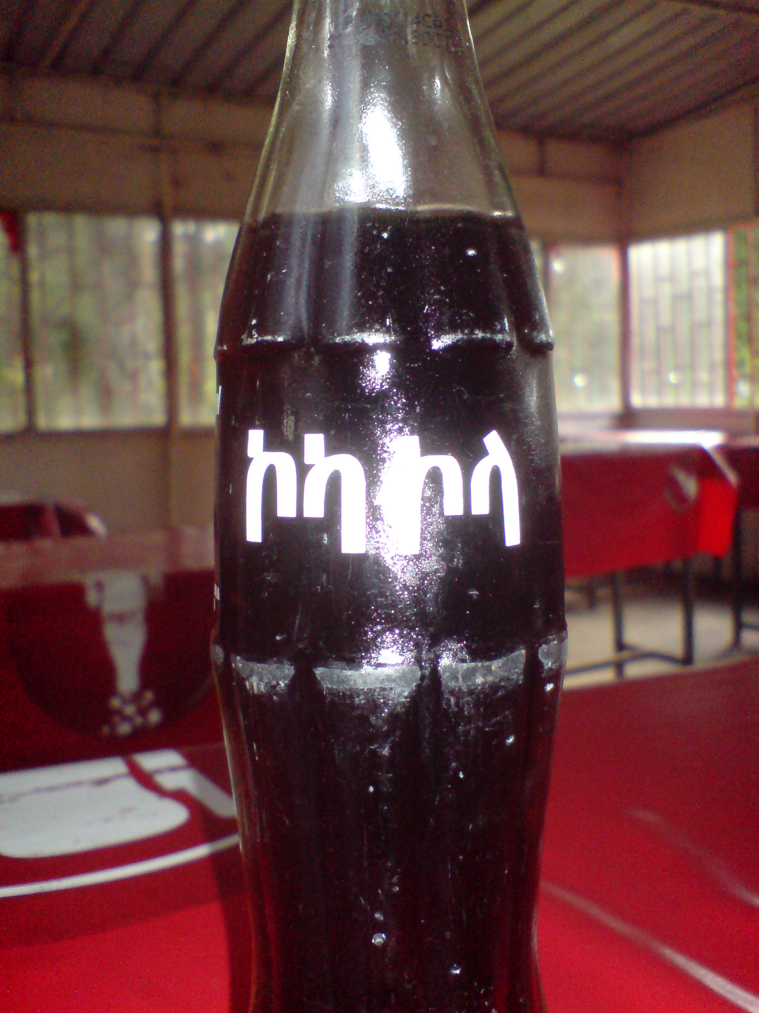 A Coca Cola bottle in Ethiopia with the distinct logo in Ethiopian letters. This is an image of food from Ethiopia